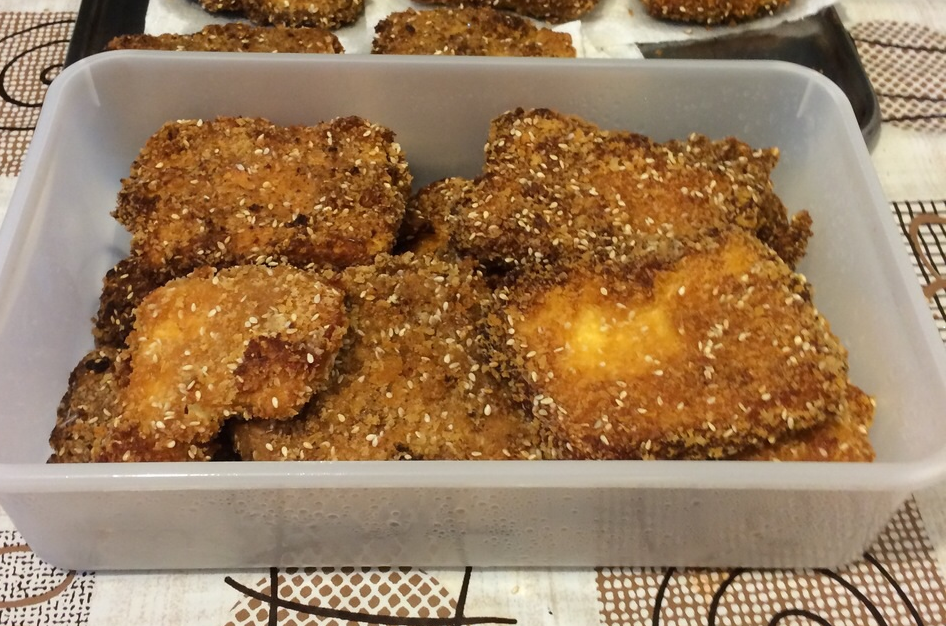 Vegan Tofu Shnitzel. The secret here is actually the batter. The basis of the batter is nothing more than about 2 cups of Chickpea flour (Besan), Some 1/2 cup of Sweet Chili source (Thai), and the rest is 1 table spoon of mustard, spices (I recommend to conclude some Garlic powder with them) and some water. Just add Water to make a batter...The batter shouldn't be diluted, but rather thick. The image was taken at my parents house in Israel.